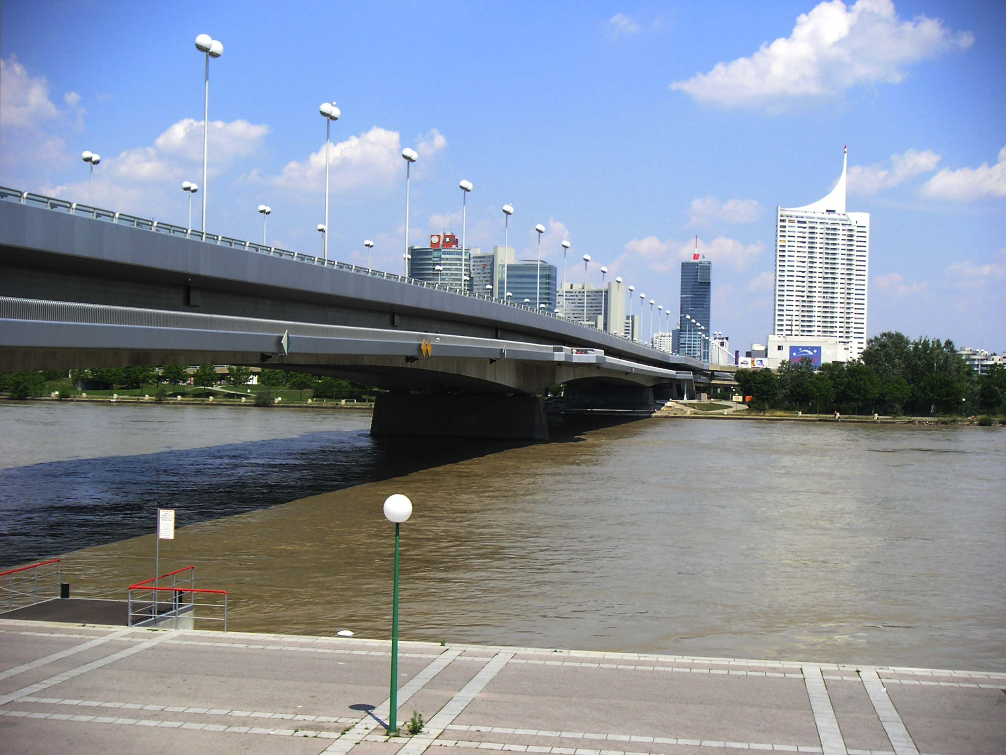 Reichsbrücke in Vienna, Austria; view from right shore